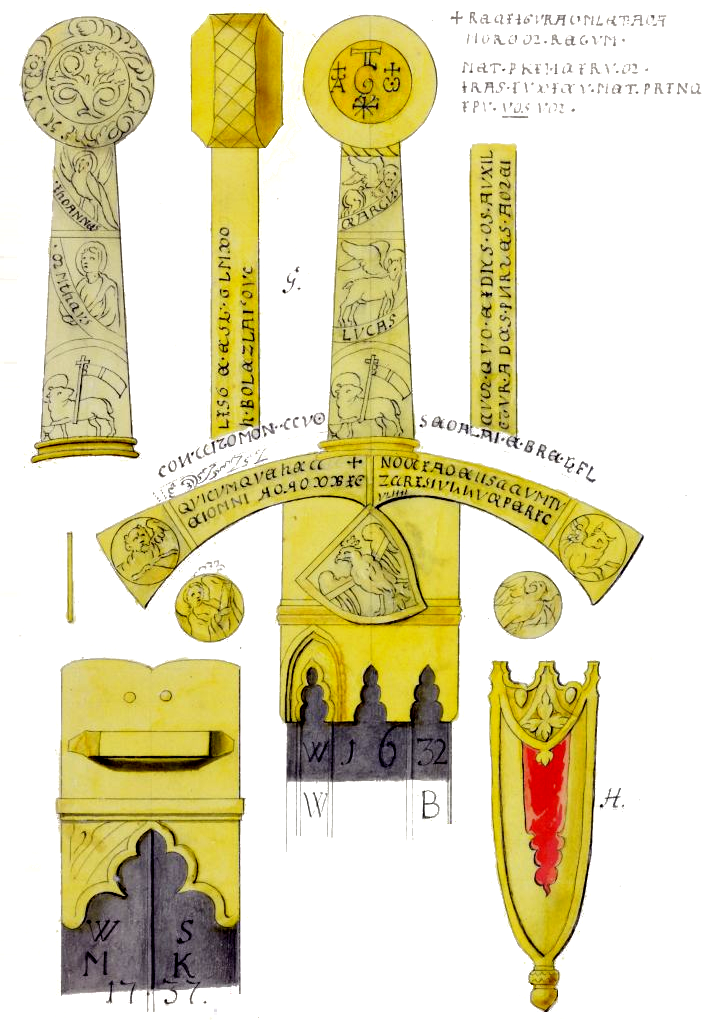 Graphical documentation of the Polish coronation sword, Szczerbiec (edited)